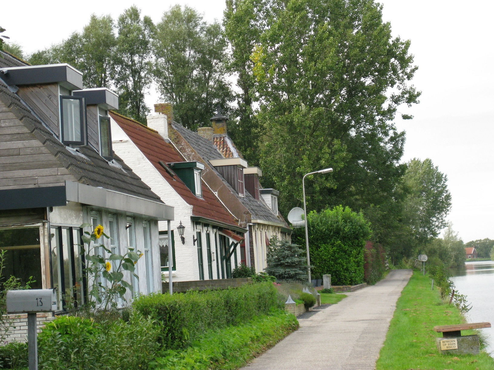 Tichelwurk, near Stiens (county Friesland, The Netherlands)